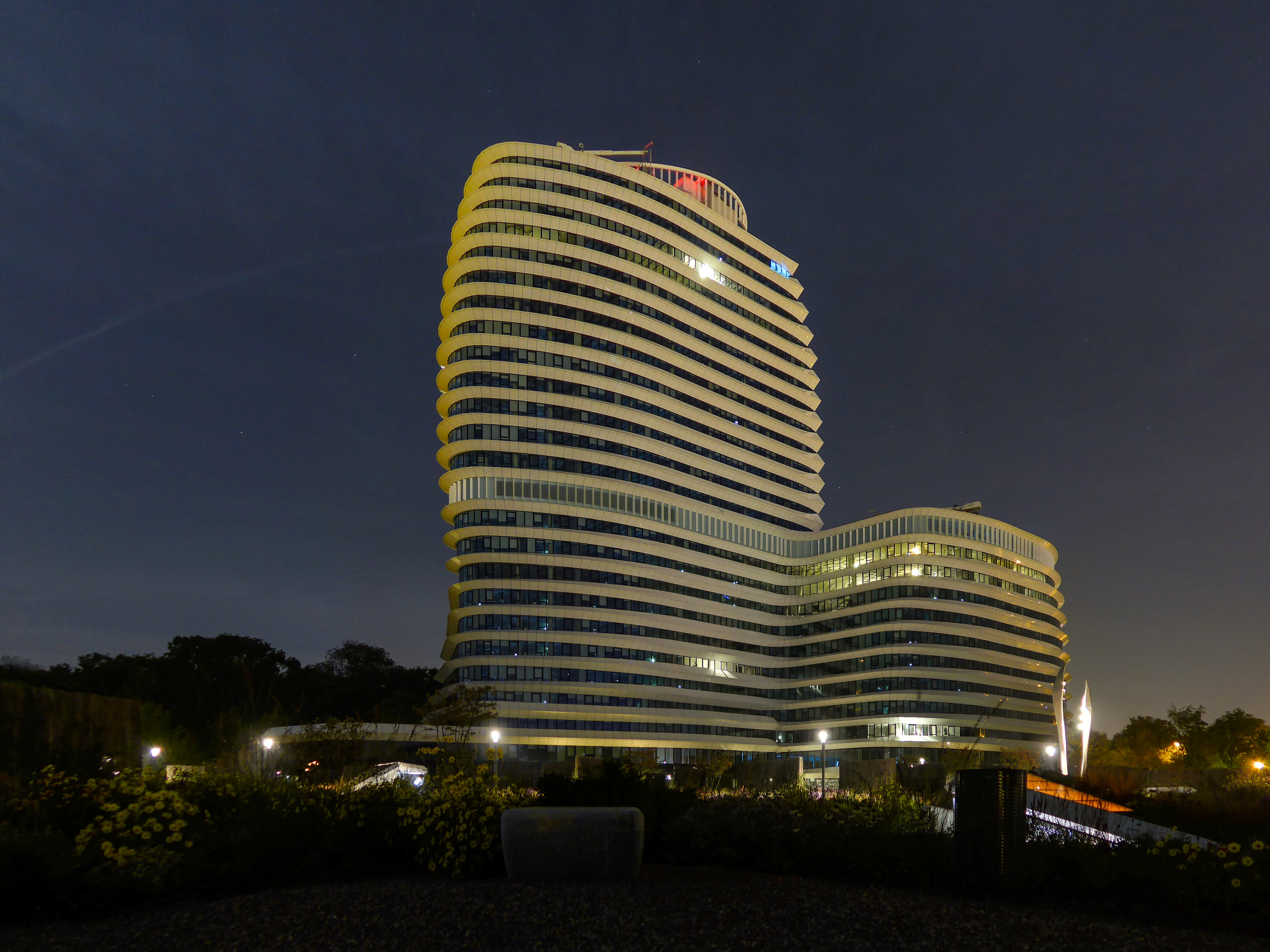 Office building (b. 2008-2011, UNStudio) in the Dutch city of Groningen.